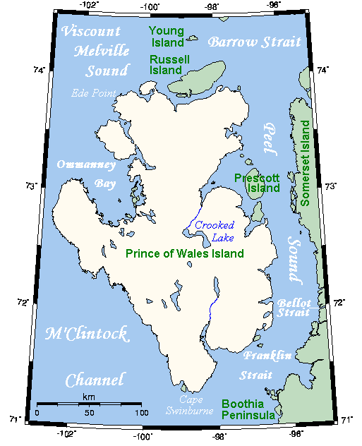 A closeup map of Prince of Wales Island, Nunavut, Canada.